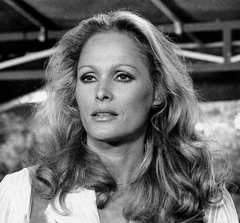 Close-up of Ursula Andress in a scene from the movie Stick'em Up, Darlings, starring the actress as the American hostess Nora Green. Italy, 1974